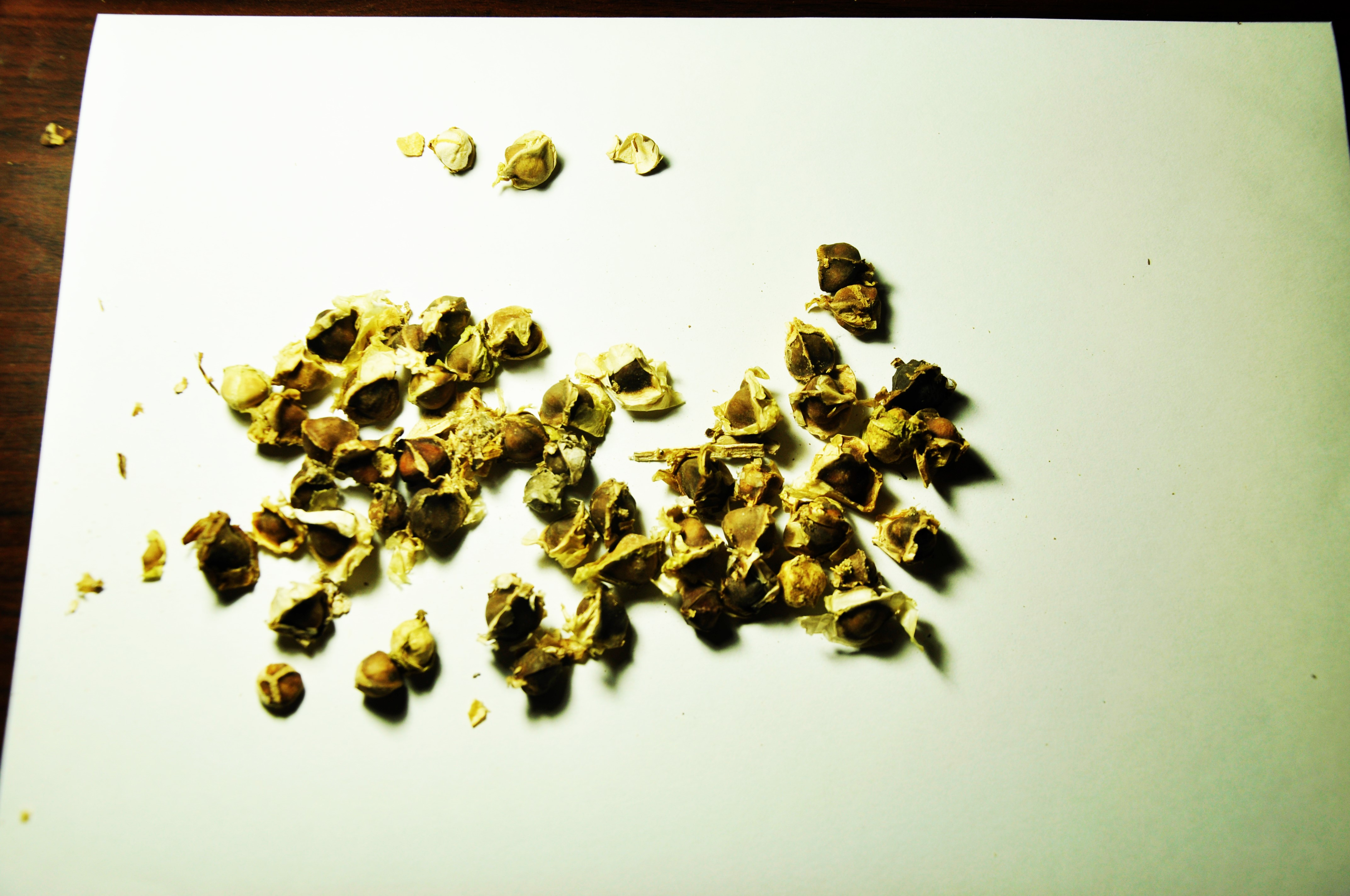 The seeds of Moringa oleifera. This photo has been taken by Prof. Chen Hualin